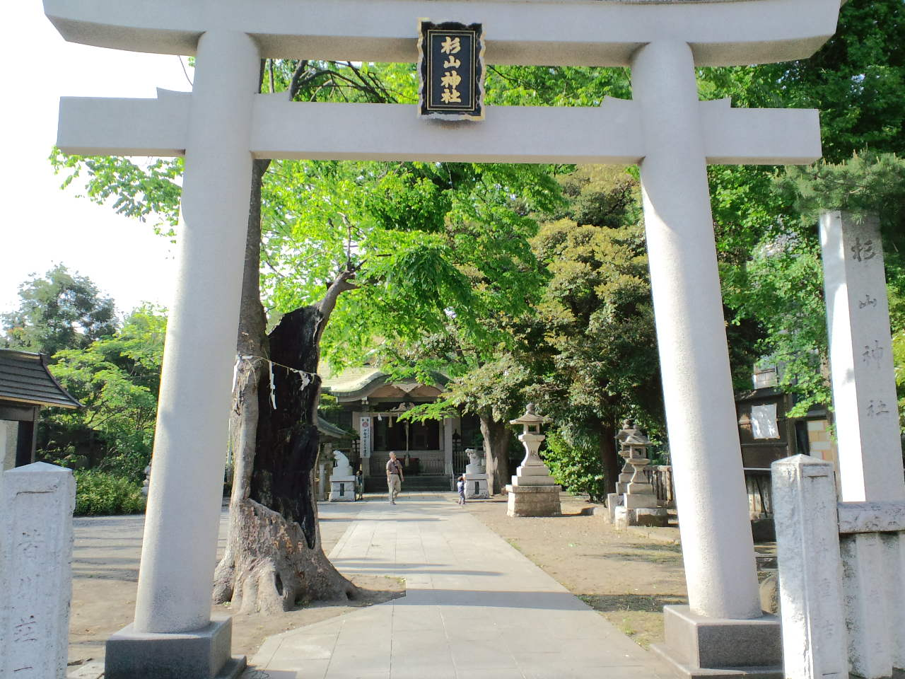 Sugiyama Jinjya (Shrine) at Yokohama, Japan